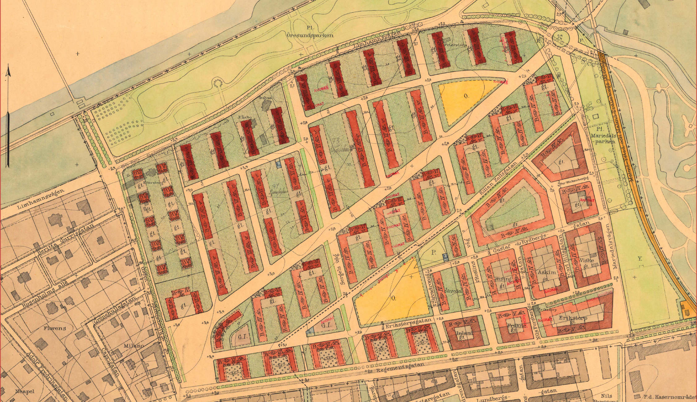 City plan